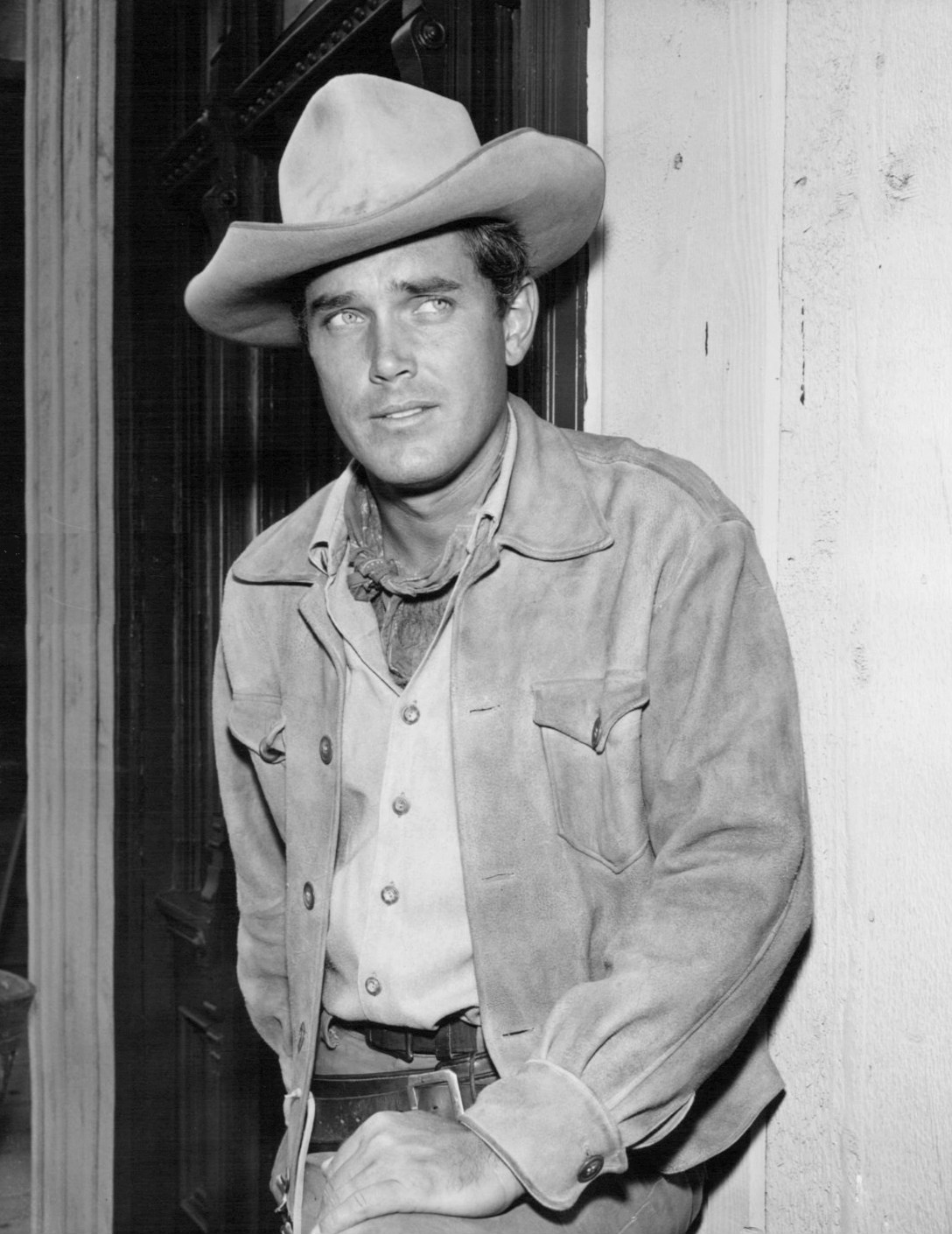 Photo of Jeffrey Hunter as Temple Houston from the television program of the same name.